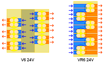 Schematic view of inlet (blue) and exhaust (red) ports, highlighting the differences between even port lengths on a conventional V6 engine, vs the unequal port lengths on the Volkswagen Group 24valve VR6 engine